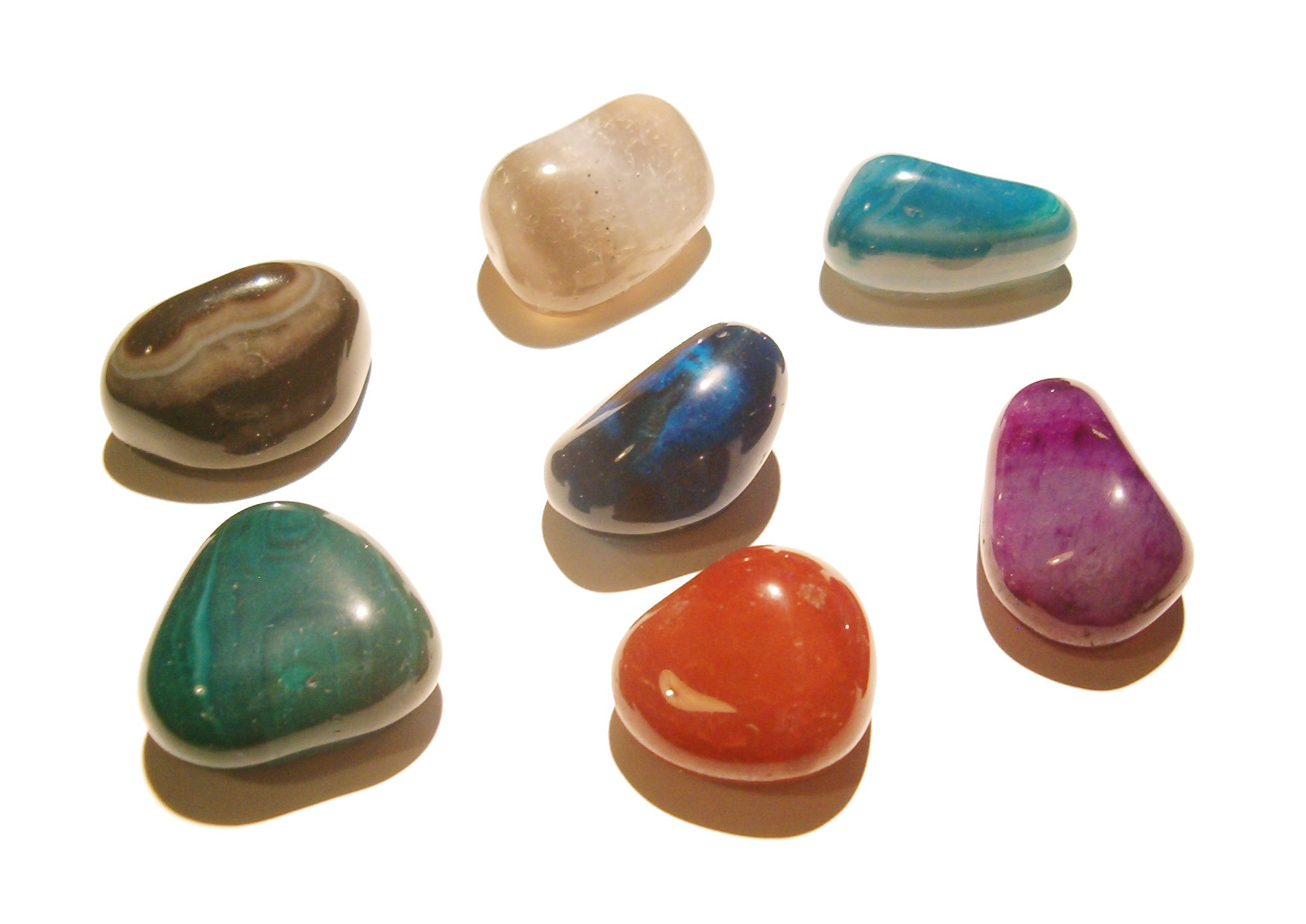 Polished, commercially dyed agate stones.